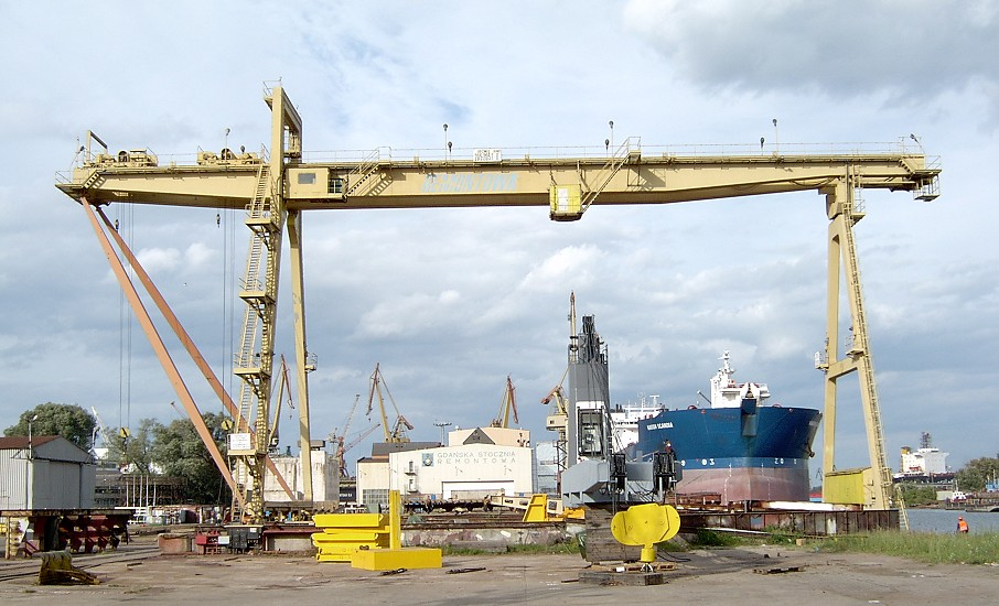 Gantry crane of Remontowa Shiprepair Yard in Gdansk, Poland.